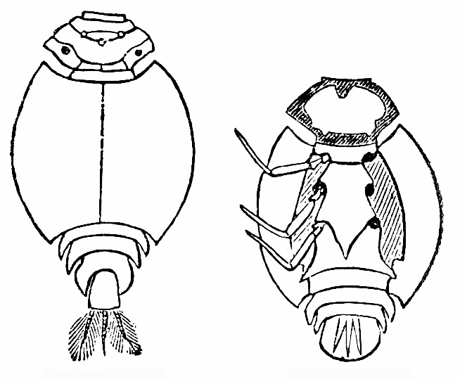 An instar of the mayfly Prosopistoma foliaceum. Dorsal (left) and ventral (right) views.